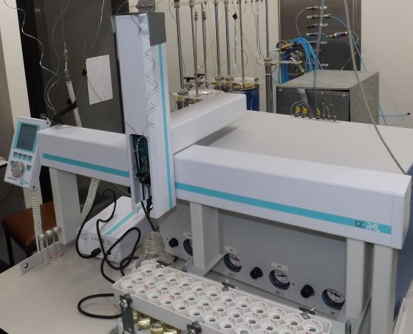 Autosampler